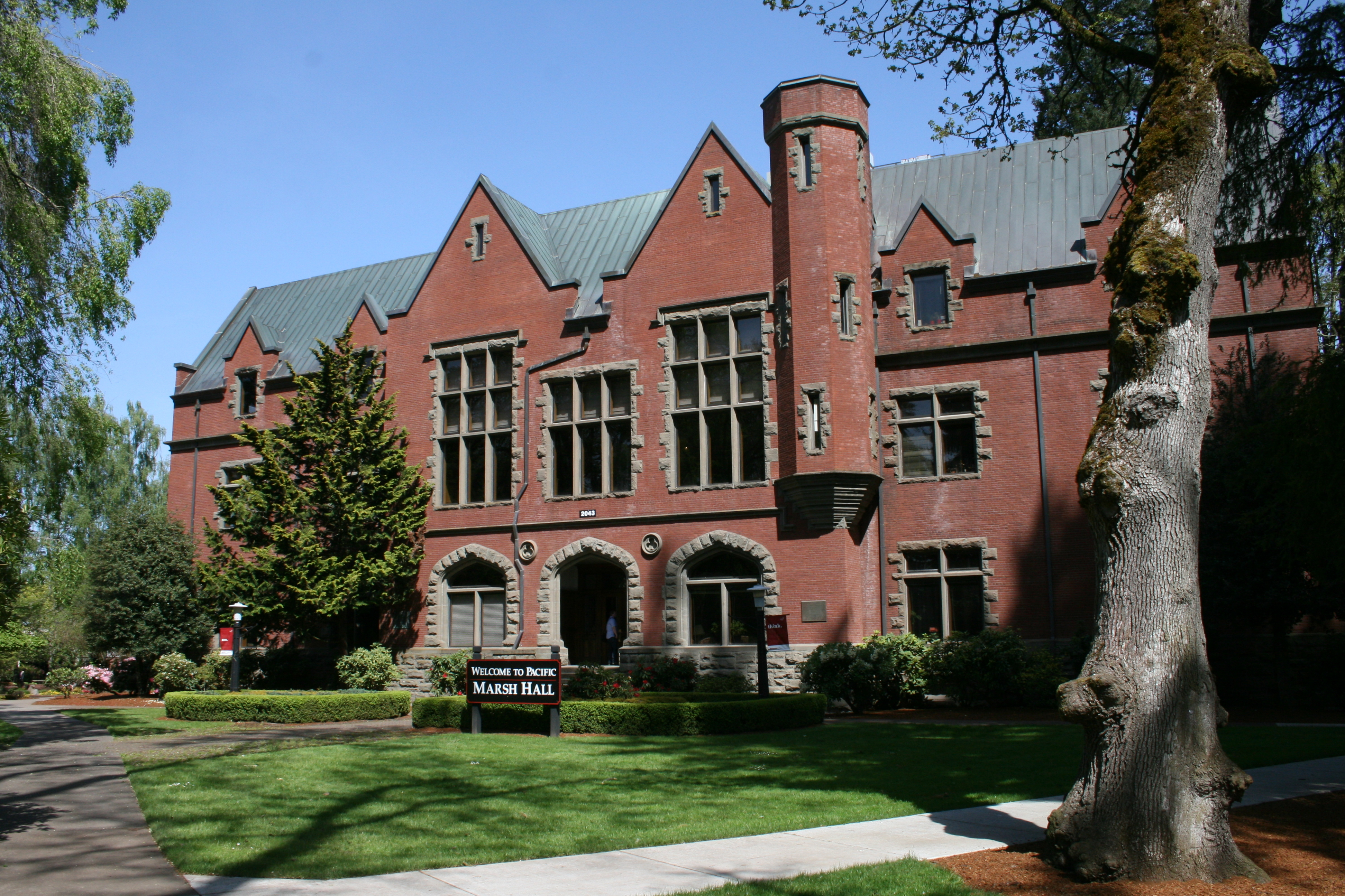 A central office and classroom building at Pacific University, Forest Grove, Oregon.